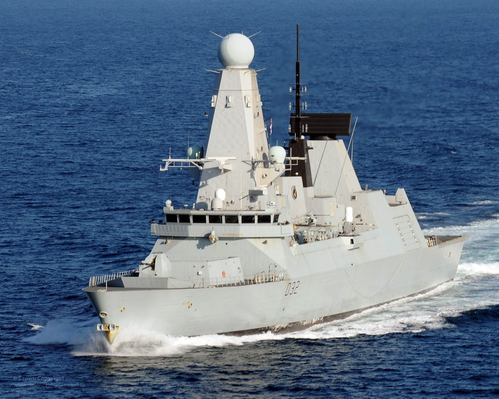 Royal Navy Type 45 destroyer HMS Daring. HMS Daring has participated in a Combined Maritime Forces focussed operation in the Red Sea and Gulf of Aden, Operation Scimitar Anzac. The Type 45 and her Ship's Company worked as part of Combined Task Force (CTF) 150, one of three Task Forces within the Combined Maritime Forces (CMF), a 25 nation international partnership who coordinate their collective military and multi-agency assets to safeguard and build capacity in Maritime Security operations in the Gulf Region. CTF 150 is currently made up of Royal Navy, Royal Fleet Auxiliary, Pakistani Australian New Zealand, and Yemini Naval Forces. The group is presently led by a combined Royal Australian and New Zealand Navy Battle staff The next rotation will see the Pakistani Navy take the lead. Focussed Operation Scimitar Anzac saw the task force, made up of HMS Daring, HMAS Parramatta, PNS Babur and the RFA Wave Knight, operating near the Bab El Mendeb Straits off Yemen. HMS Daring is currently deployed for a seven-month deployment to continue the Royal Navy's long-term presence East of the Suez. The ship will be acting as part of the Royal Navy's standing commitment in the Middle East, providing a range of capabilities from counter piracy to reassurance of the UK's allies in the region. The area of operations is huge, covering the Indian Ocean, the Gulf of Aden and the Arabian Gulf. This image is available for high resolution download at subject to the terms and conditions of the Open Government License at Search for image number 45154175.jpg Photographer: LA(Phot) Keith Morgan Image 45154175.jpg from For latest news visit Follow us